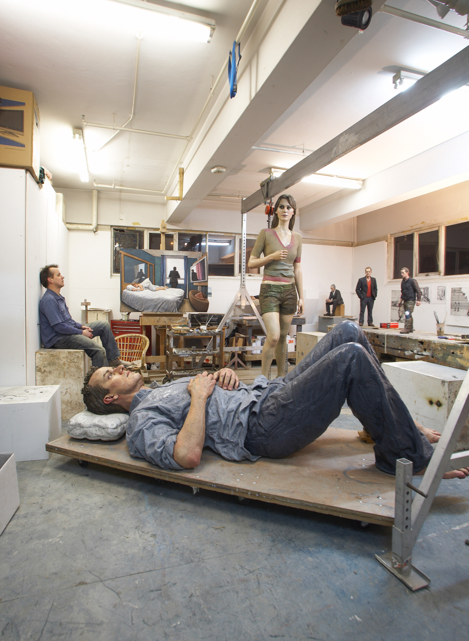 Studio shot featuring works in progress.